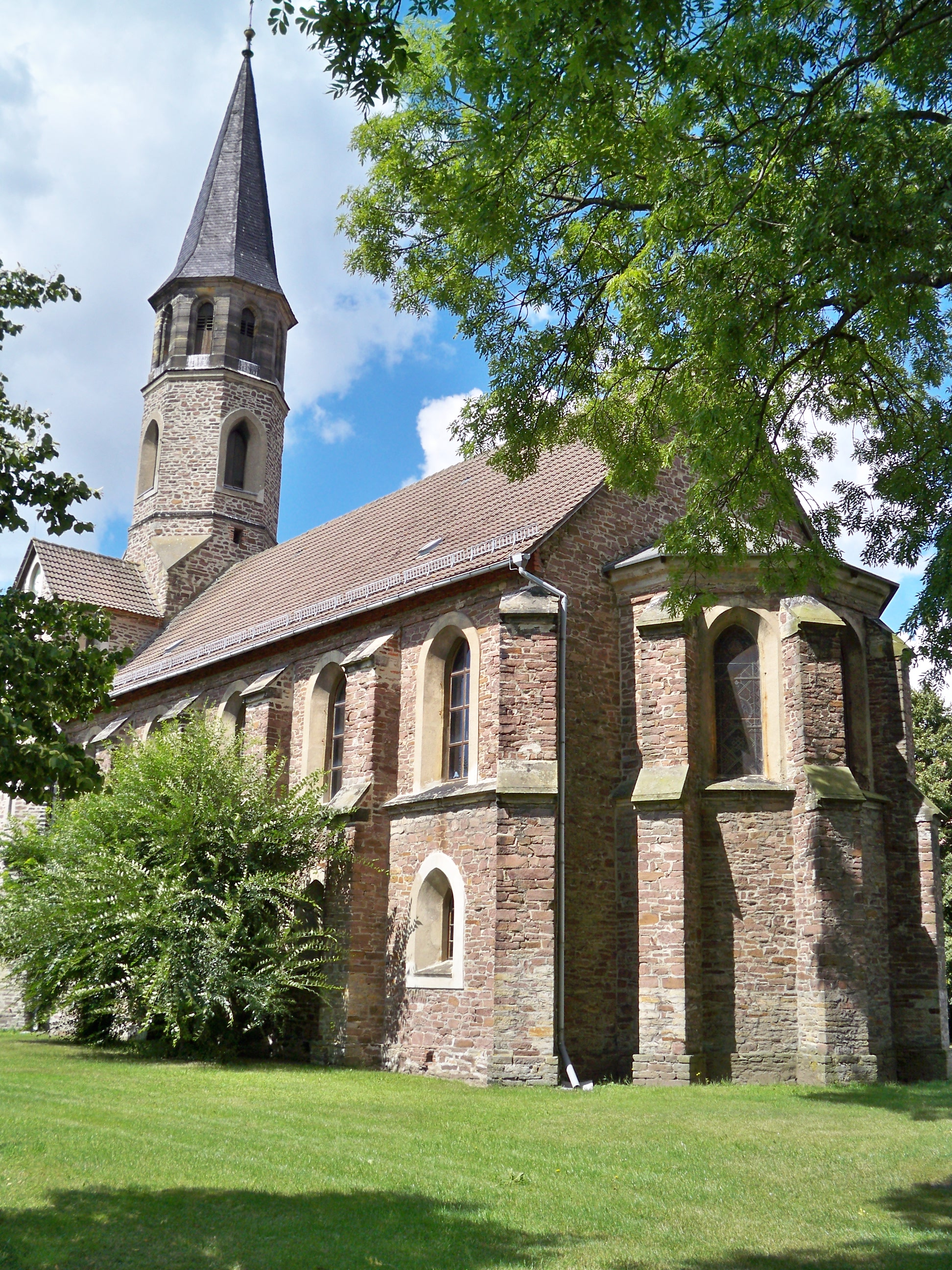 Rätzlingen, Oebisfelde-Weferlingen, Saxony-Anhalt, village church